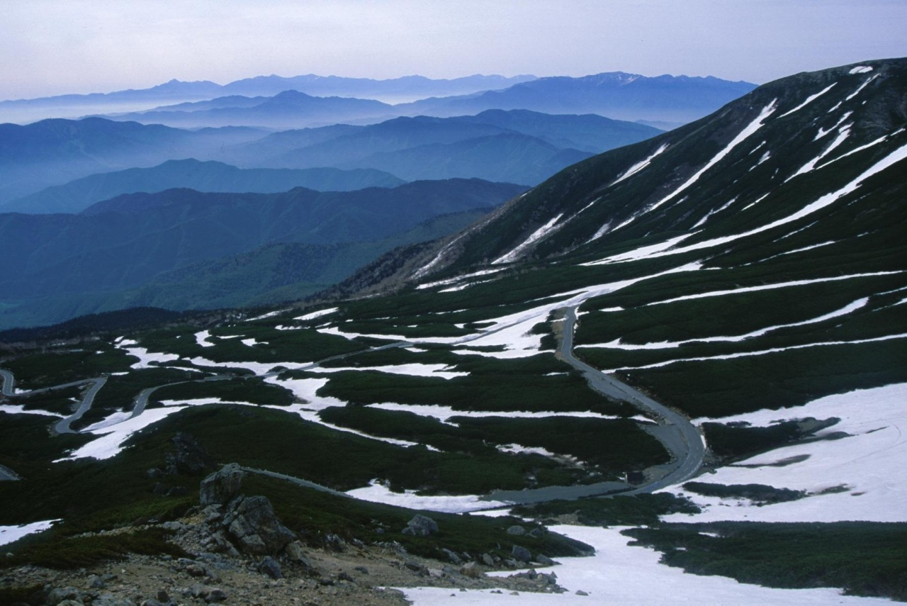 Akaisi Mountains(South Alps) and Kiso Mountains(Chuō Alps) seen from Mount Norikura